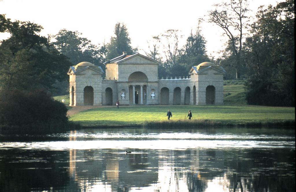 Temple of Venus, Stowe Landscape Gardens